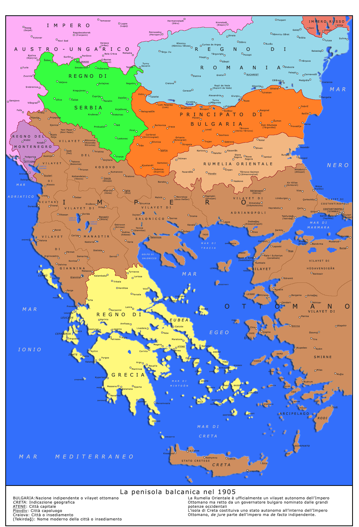 The Balkans in 1905 (in Italian)